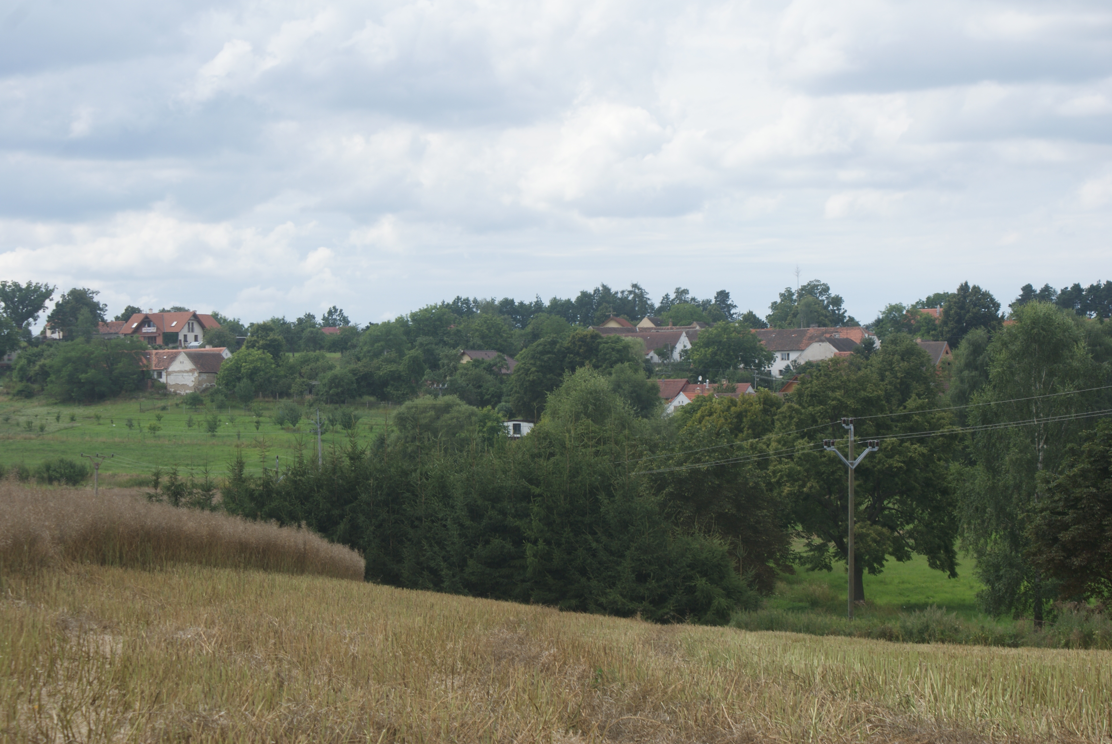 Dubí Hora, a village in Písek district, Czech Republic, general view.